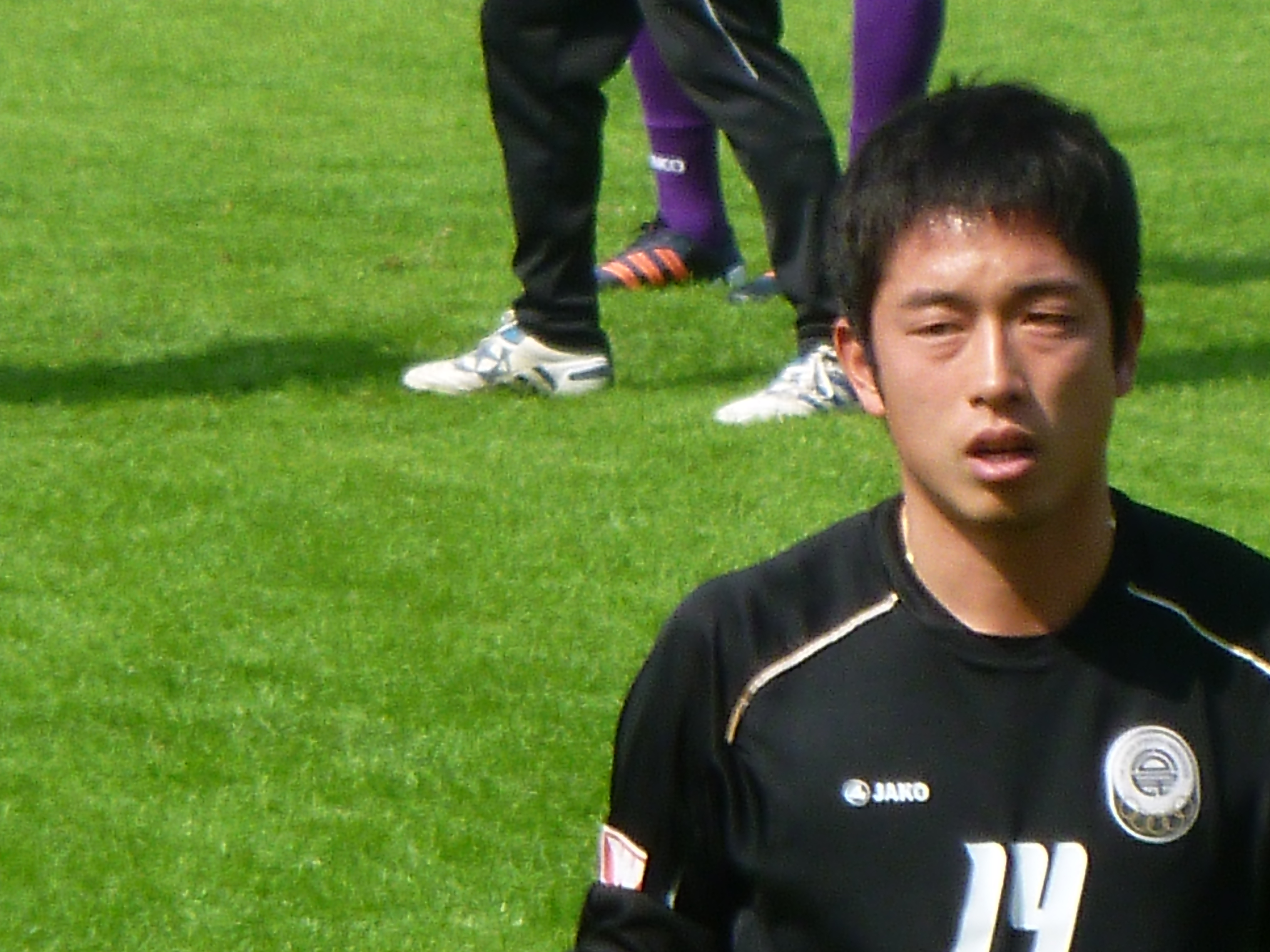 Yuto Nakamura (28 Jan 2012 Hong Kong First Division League, Citizen vs Sham Shui Po, Mong Kok Stadium)